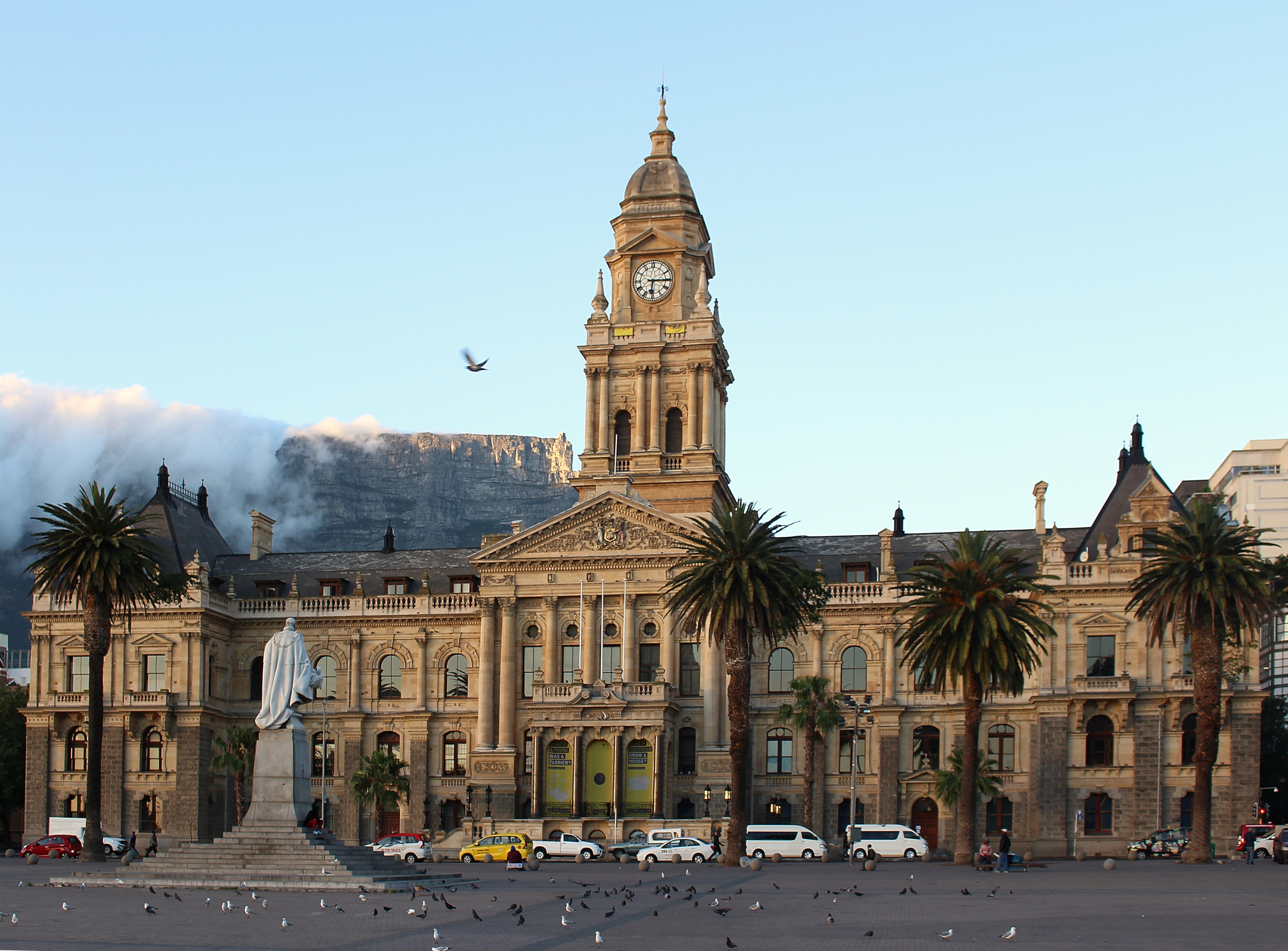 City Hall, Darling Street, Cape Town This media shows a South African Protected Site with SAHRA file reference 9/2/018/0115.